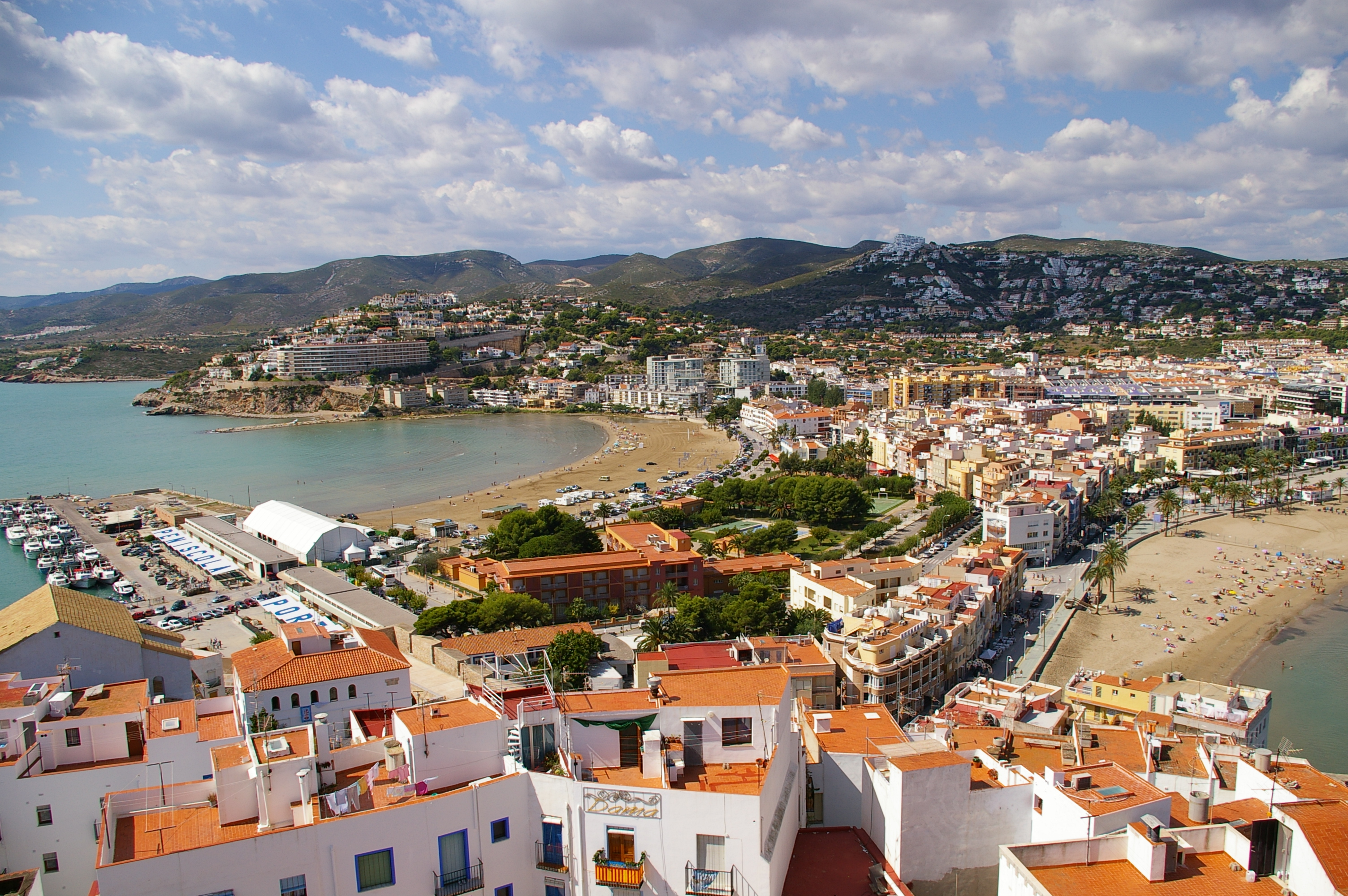 Moors and Christians Festival